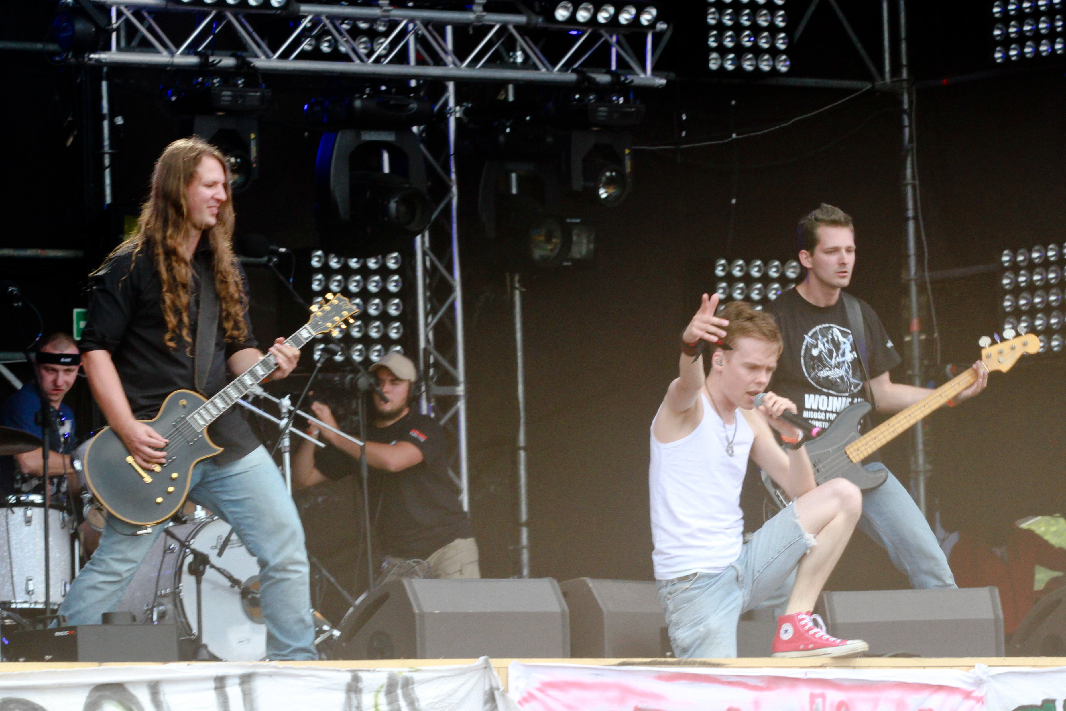 Przystanek Woodstock in 2015.